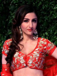 Soha Ali Khan at the Shaadi By Marriott fashion show